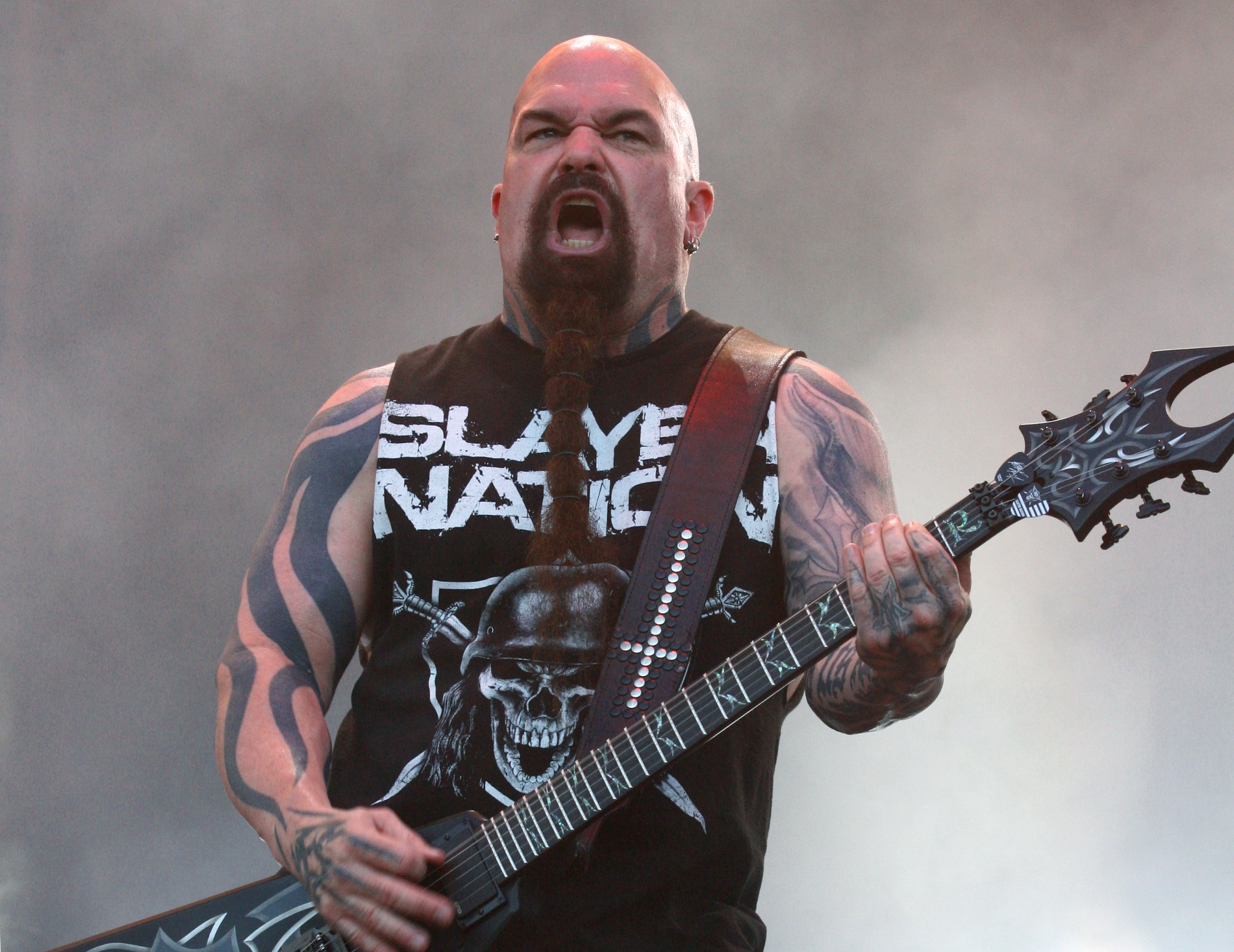 Kerry King, guitarist of Slayer, Rock im Park Festival 2014. Festivalsommer This photo was created with the support of donations to Wikimedia Deutschland in the context of the CPB project "Festival Summer".